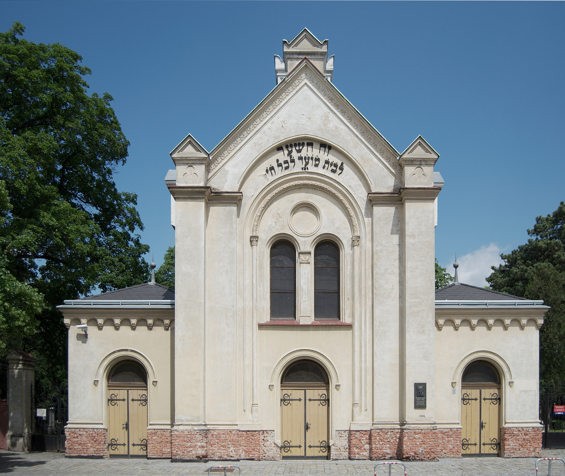 Brno-Židenice - Jewish ceremonial hall in Brno